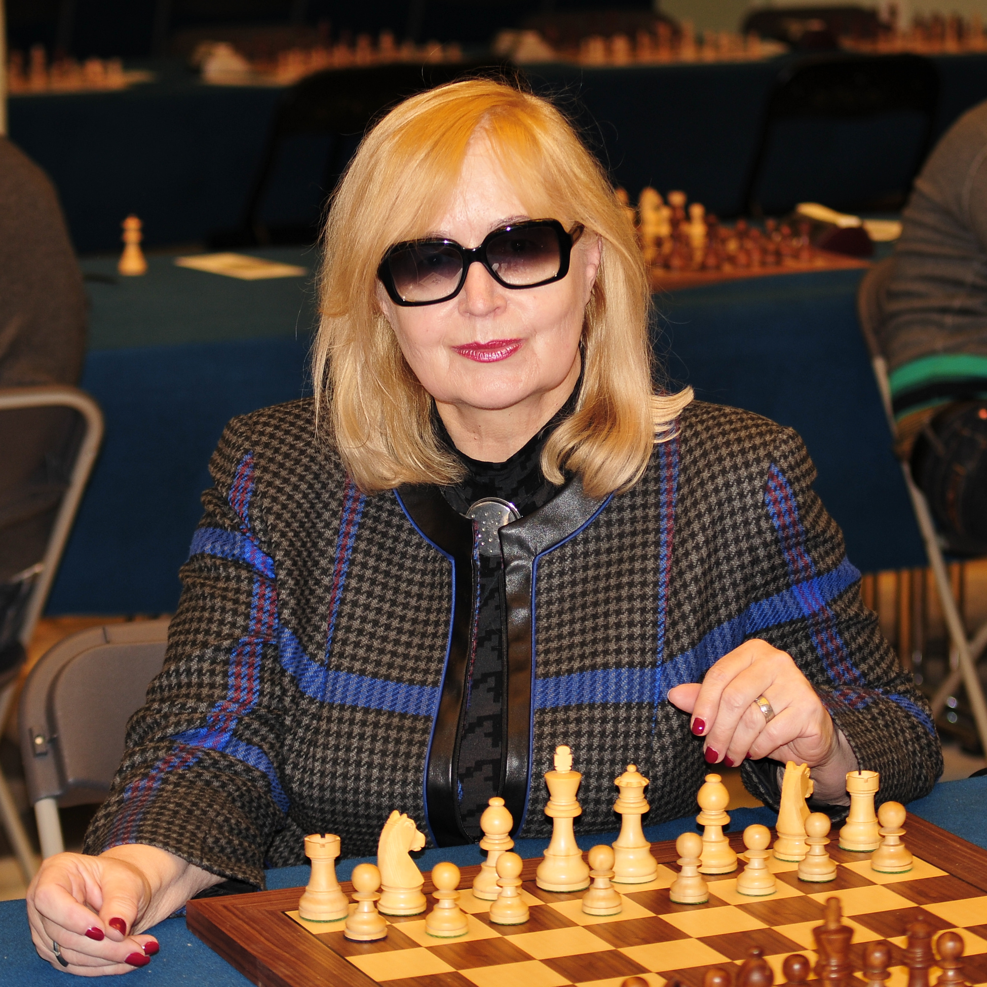 WGM Hanna Ereńska-Barlo, European Rapid Chess Championship, Warsaw 2013.